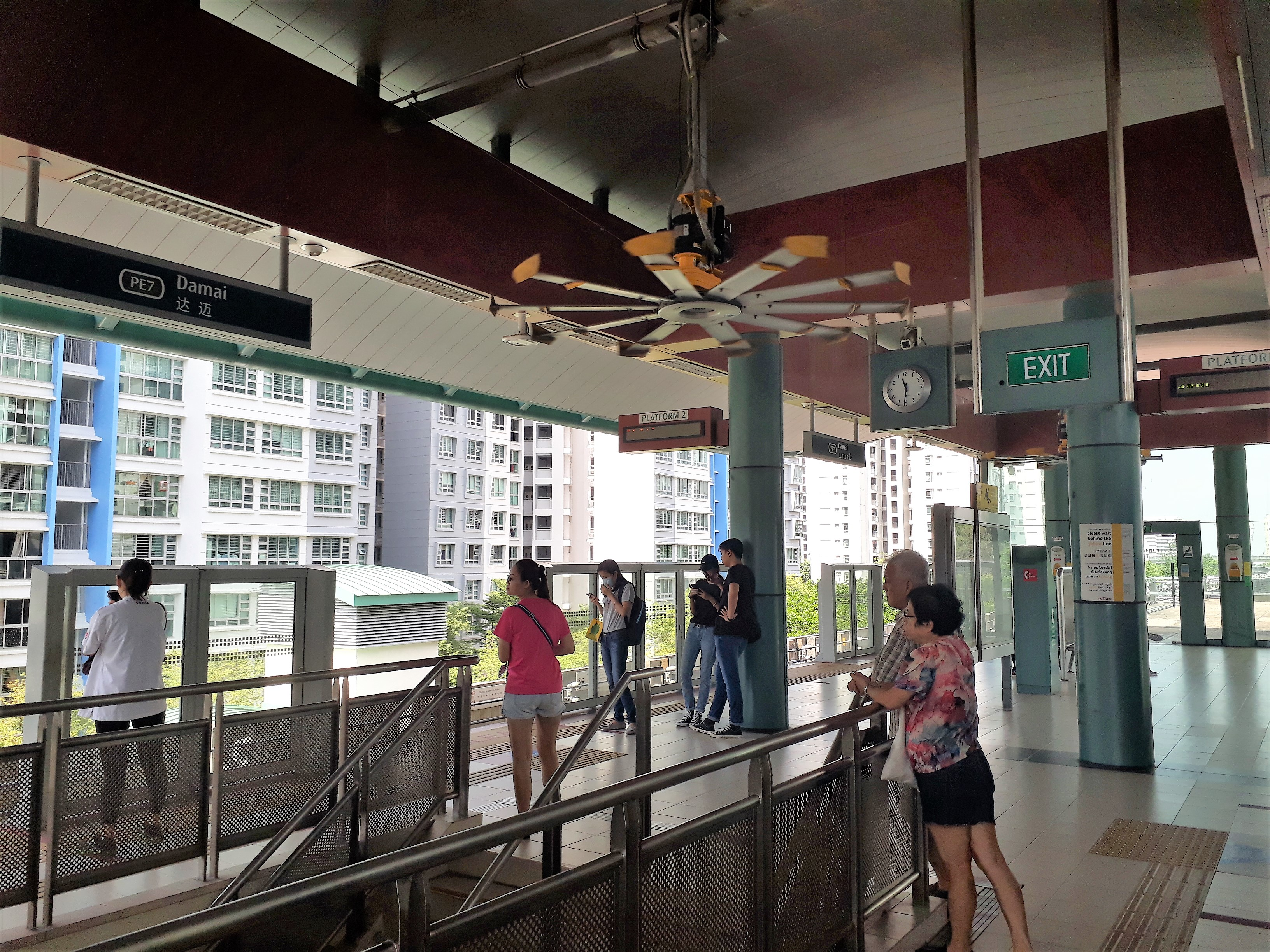 Platforms of Damai LRT station